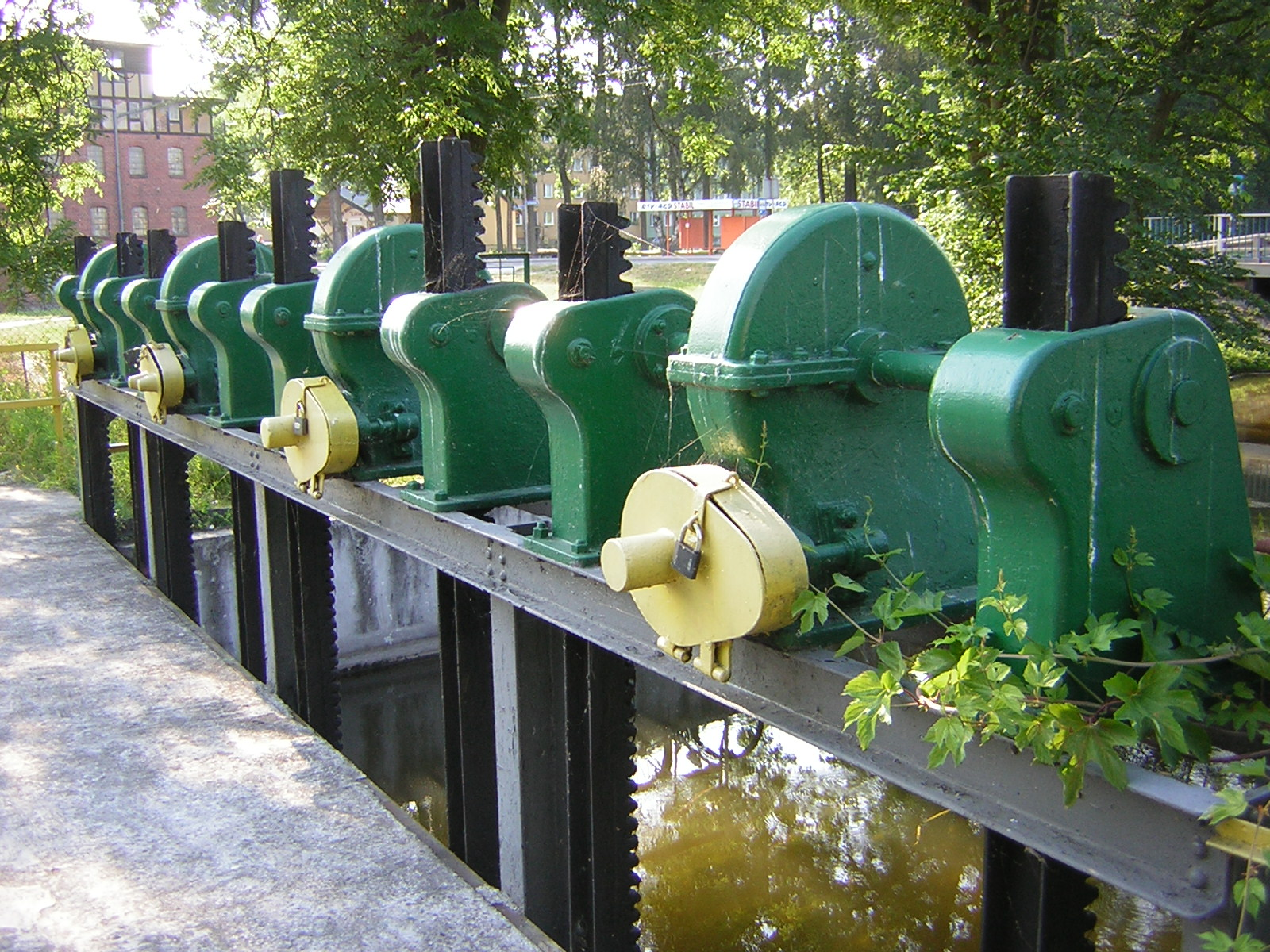 Weir in Iława